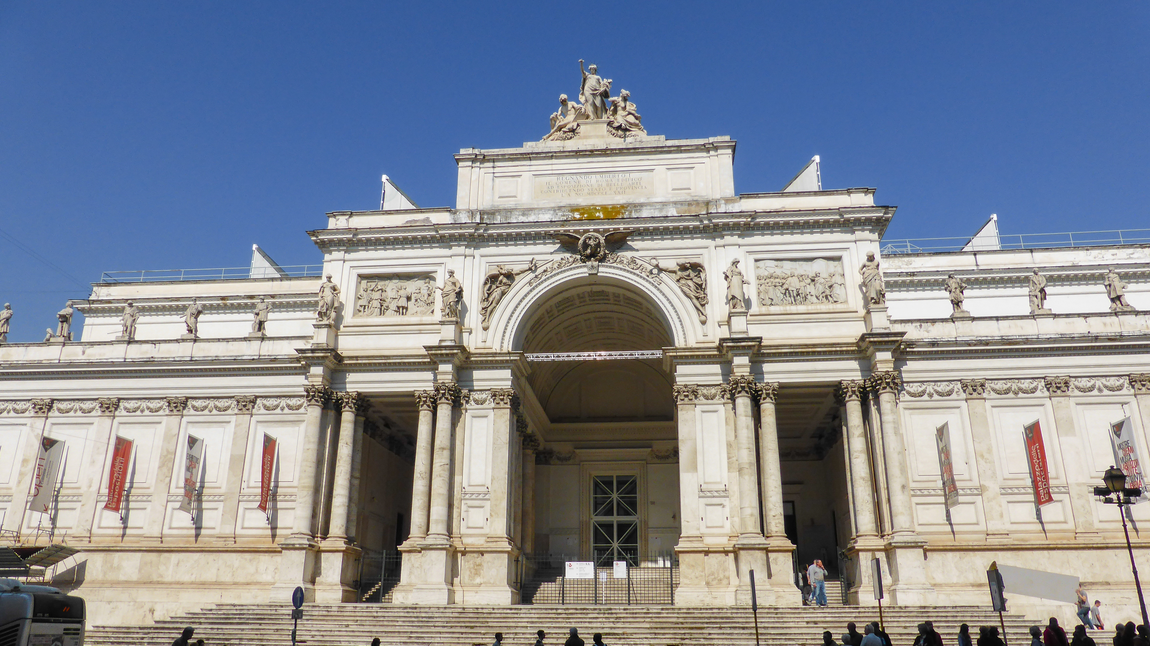 The front of the Esposizioni Palace at the Via Nazionale in Rome, Italy